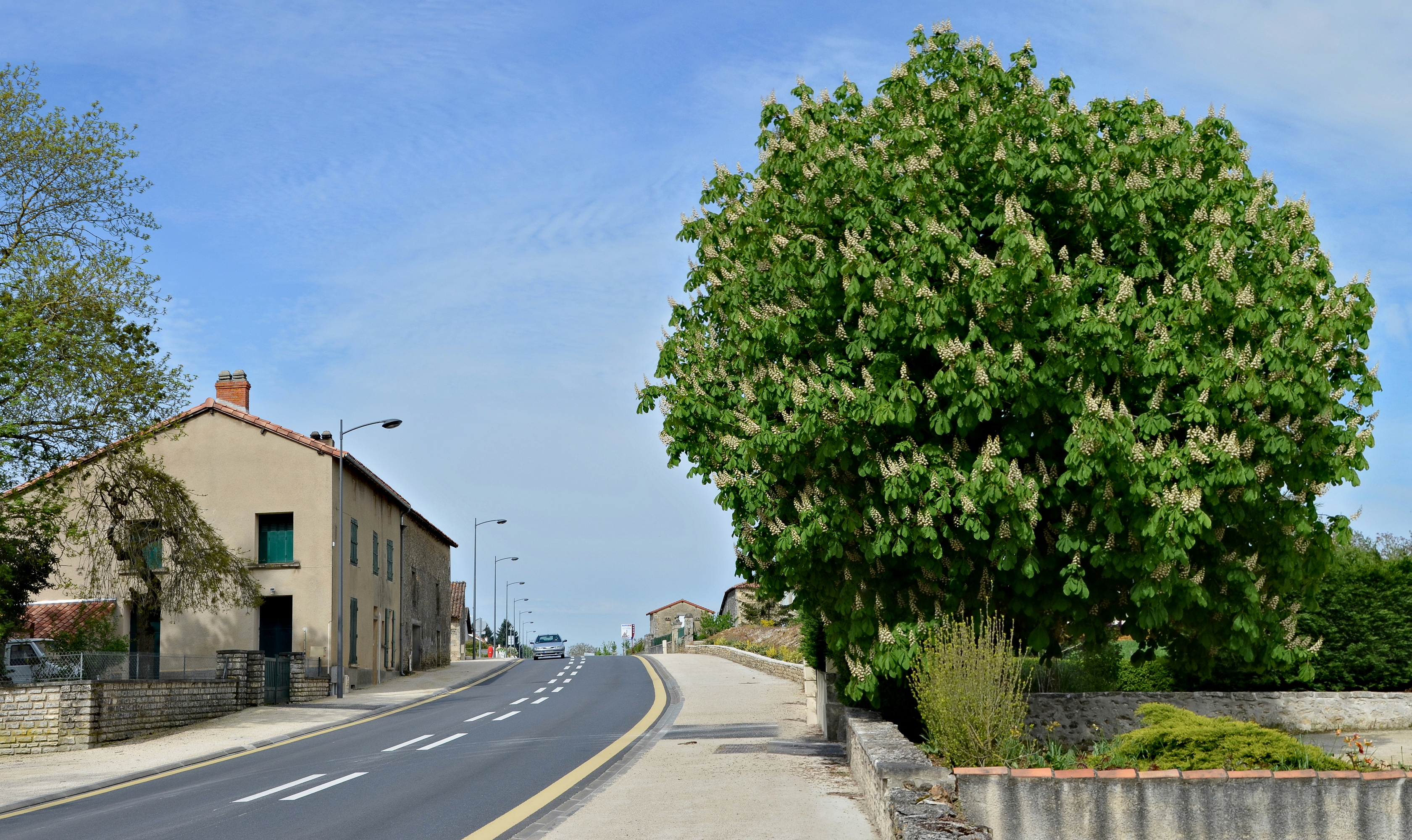 Horse-chestnut tree (Aesculus hippocastanum), near the road D 148, Saint-Pierre-d'Exideuil, Vienne, France.